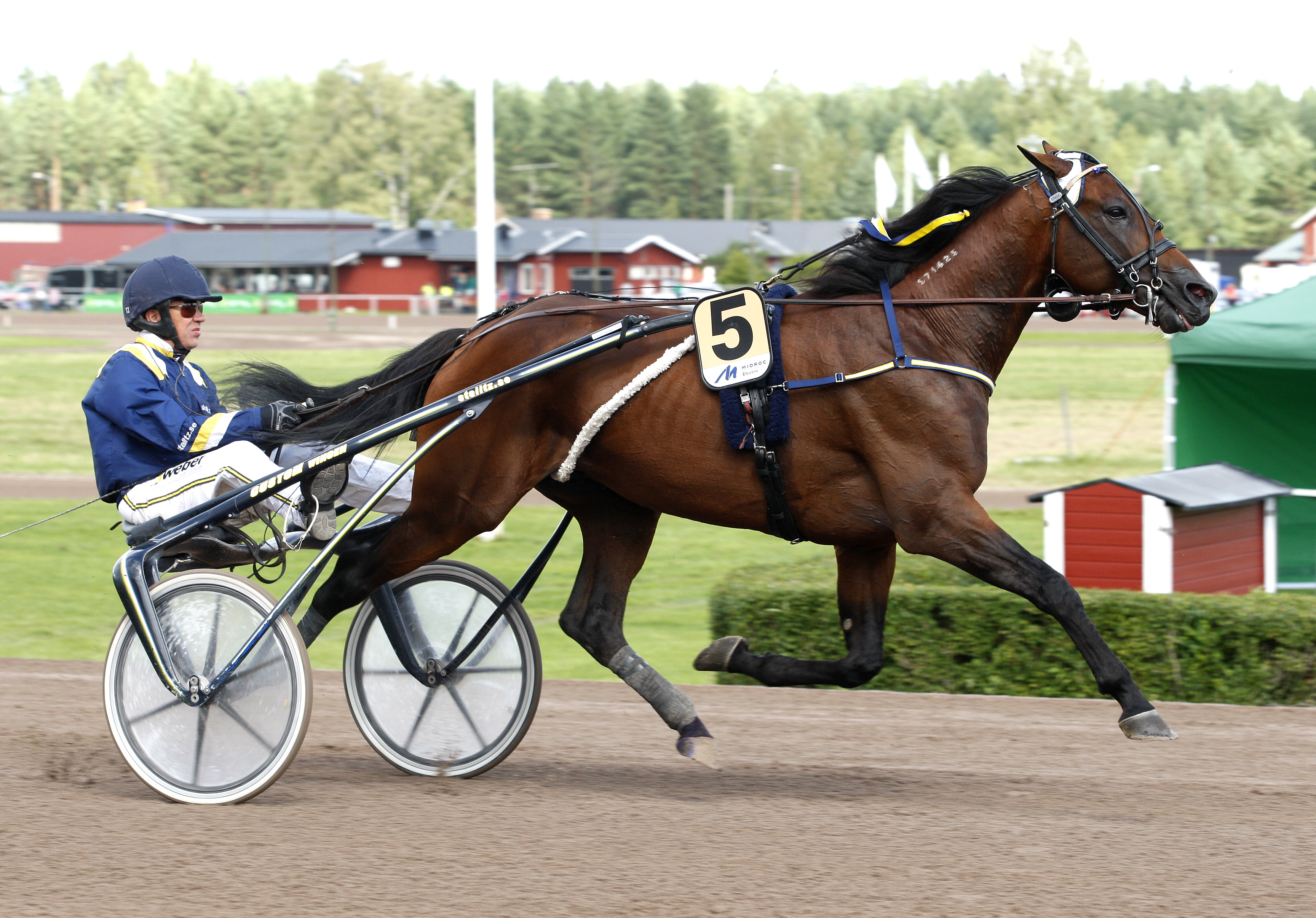 foto : h : foto: hanold/foto-mike rättvik 20120804 Trotting horse Friction and driver Örjan Kihström.